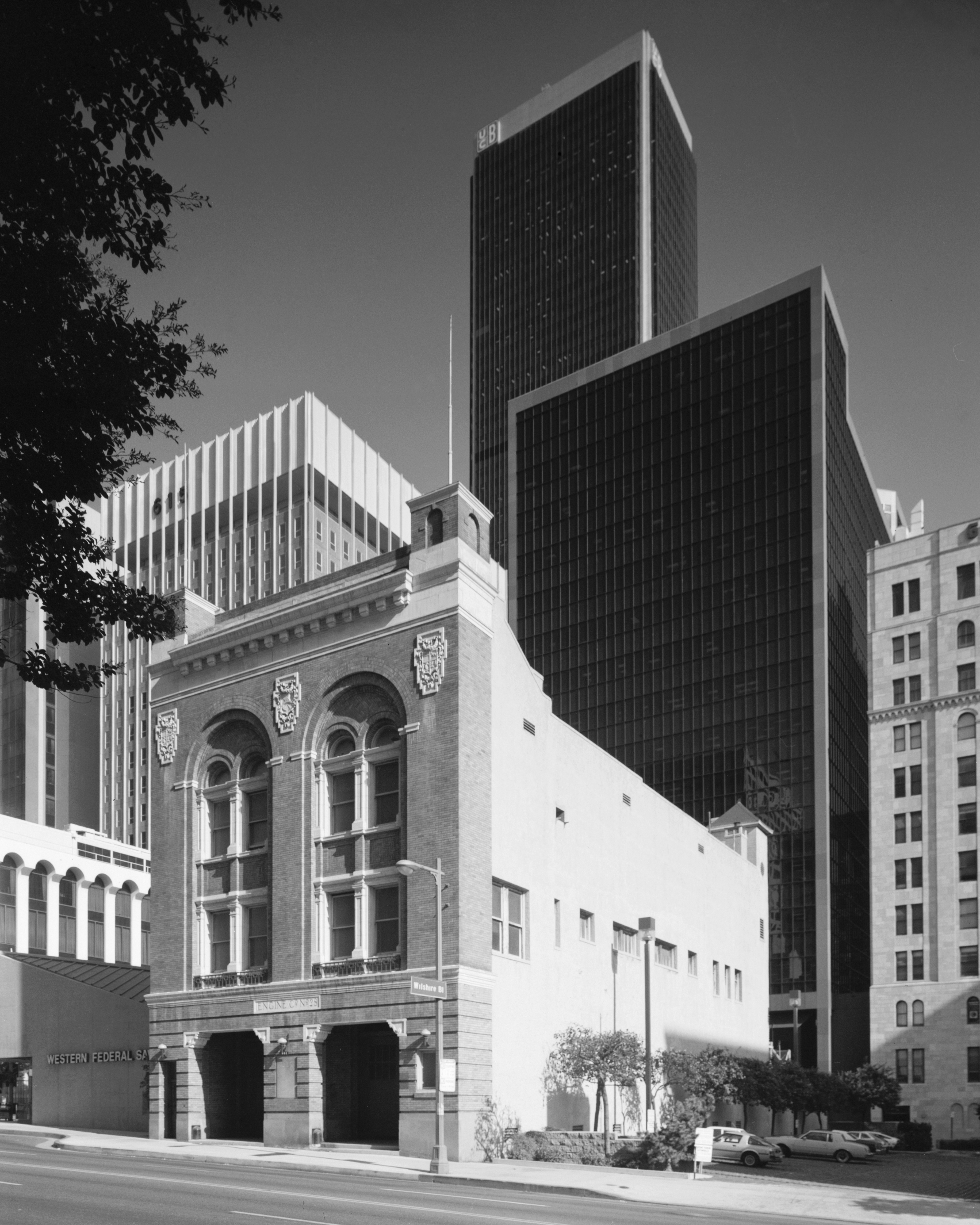 Engine Company No. 28 (Fire Station No. 28) — on South Figueroa Street in Downtown Los Angeles (with new office towers), California. A LACHM—Los Angeles Historic-Cultural Monument, and on the National Register of Historic Places in Los Angeles. 1980 Julius Shulman image from: HABS—Historic American Buildings Survey in Los Angeles, (cropped).